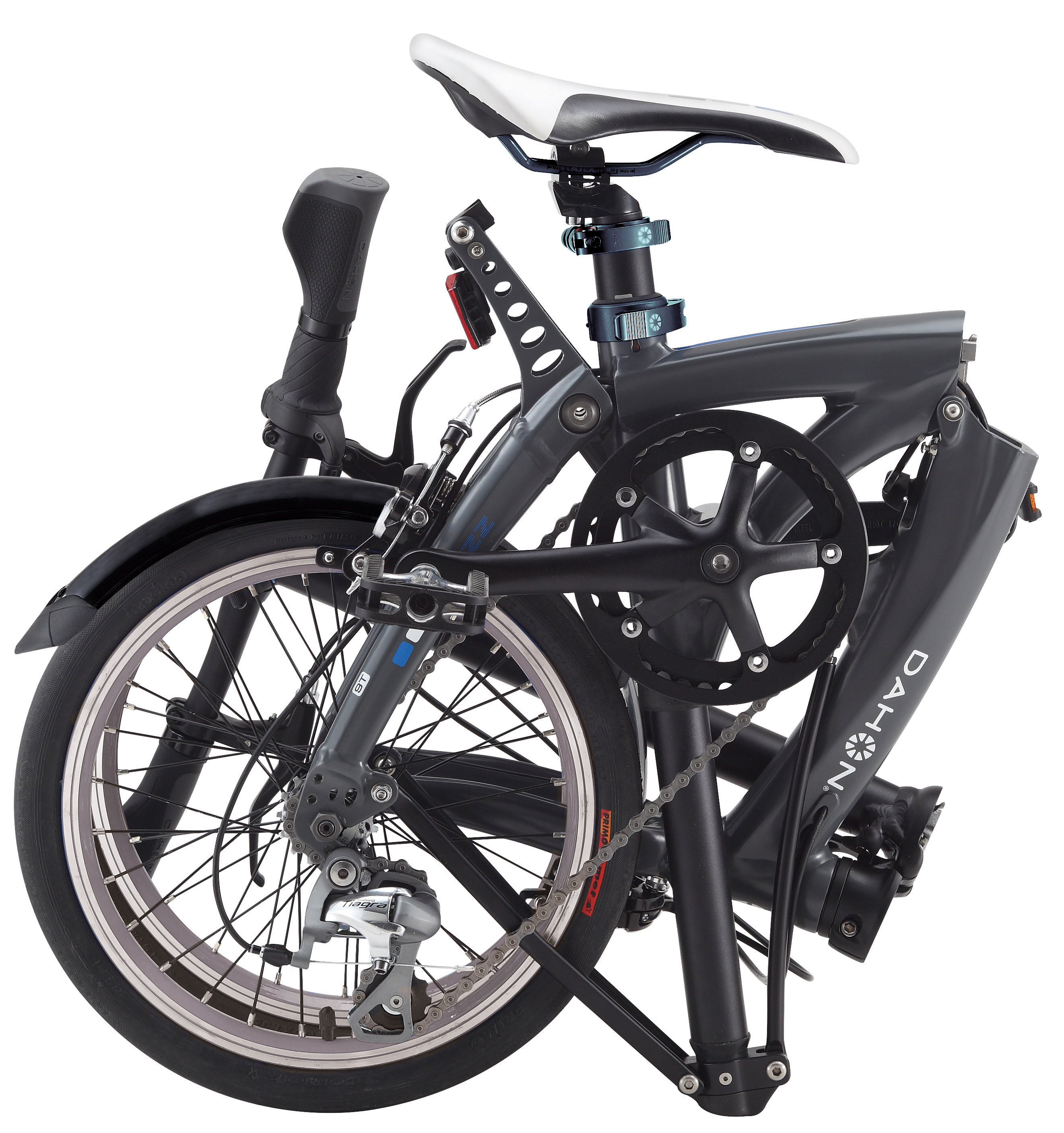 DAHON EEZZ folding bike in folded position on white background